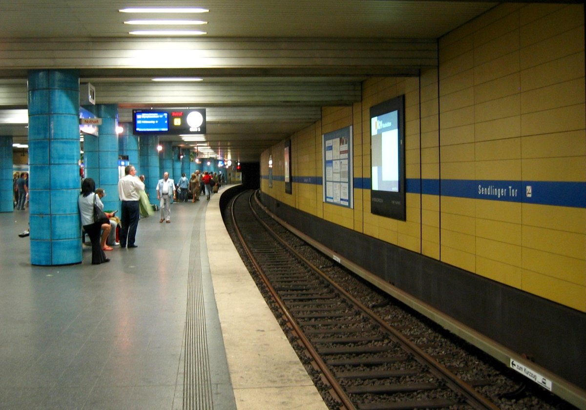 Munich subway station Sendlinger Tor (U3, U6)